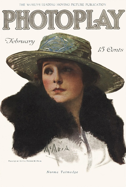 Norma Talmadge in a February 1917 Photoplay Magazine cover.